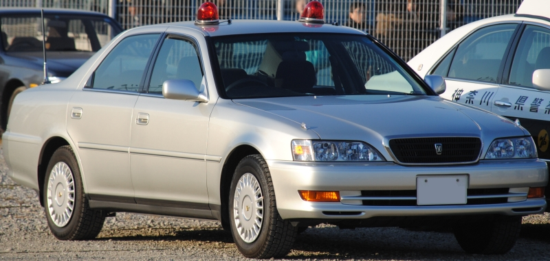 Toyota Cresta unmarked car